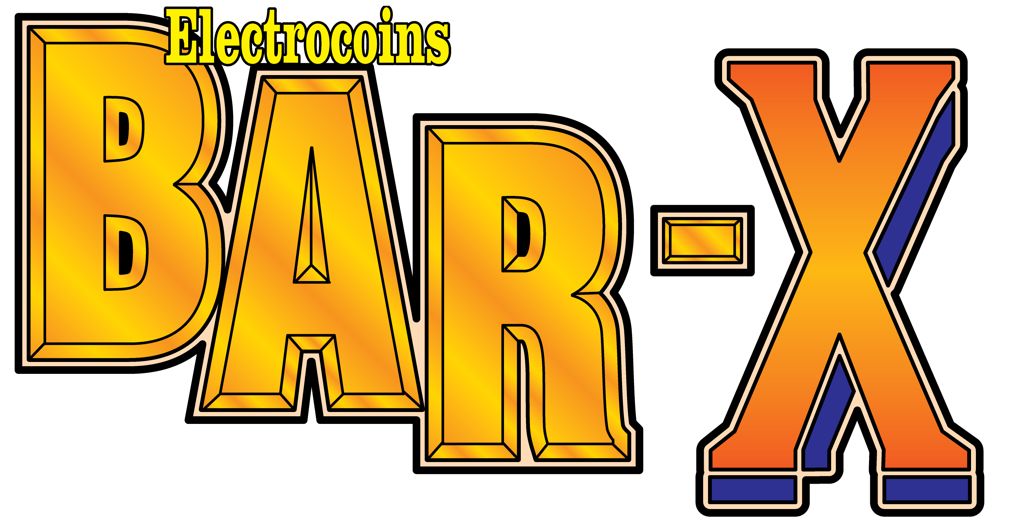 This is the registered Trade Mark for Bar-X